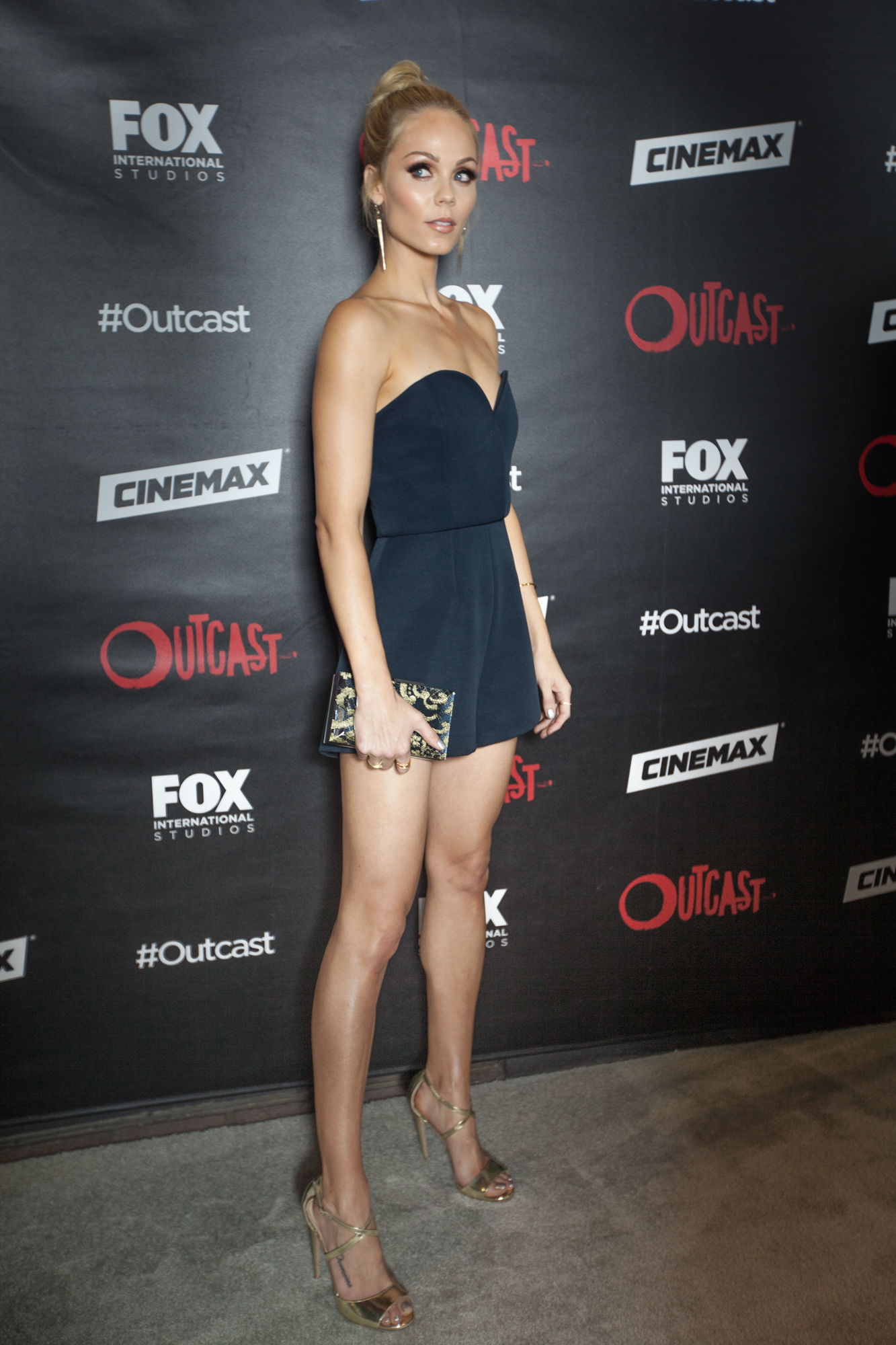 Outkast Red Carpet